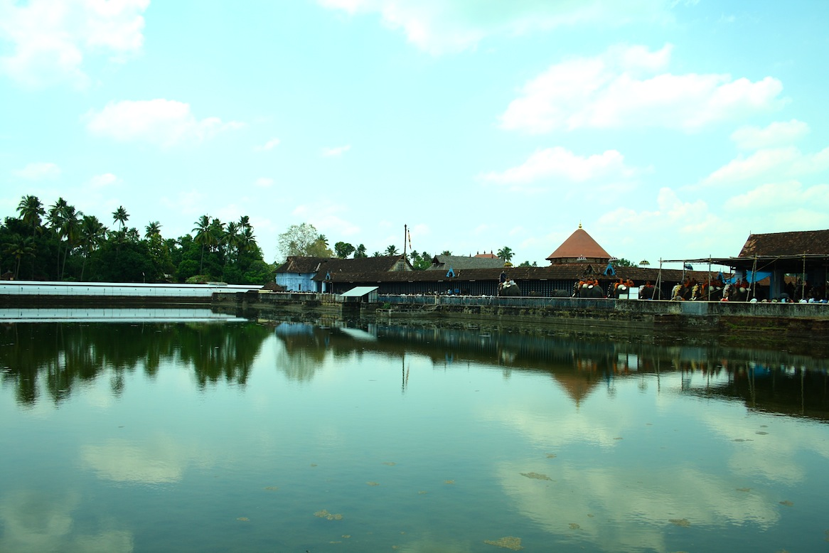 Procession of elephants during the 10 day festival in Koodalmanikyam Temple, Irinjalakuda